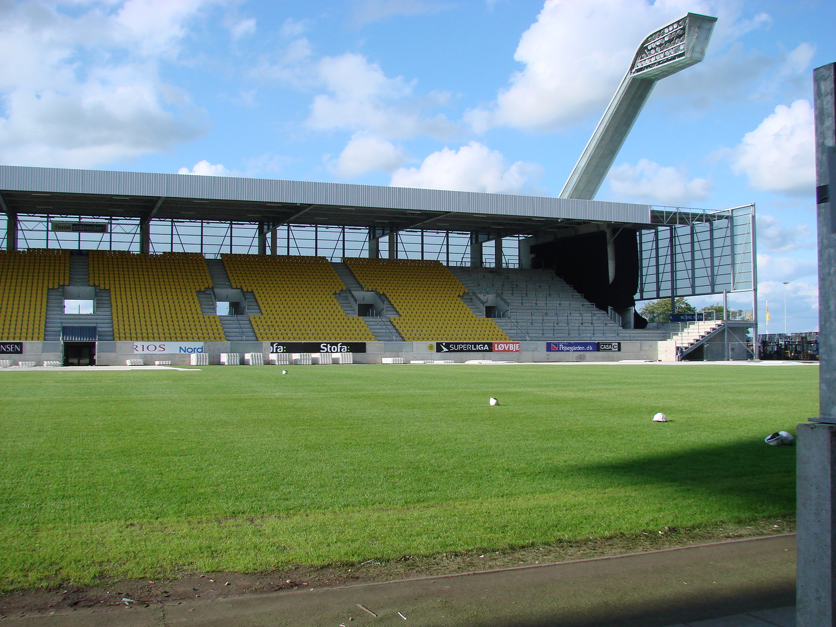 im Stadion